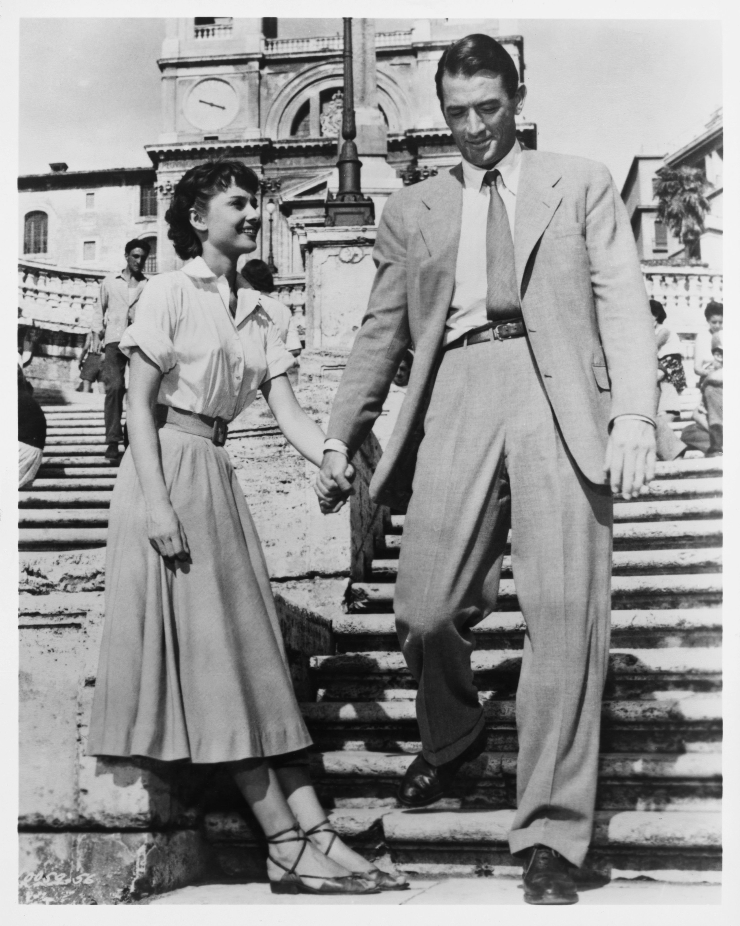 Publicity photo of Audrey Hepburn & Gregory Peck taken for film Roman Holiday (1953). See also film still. No copyright notice.